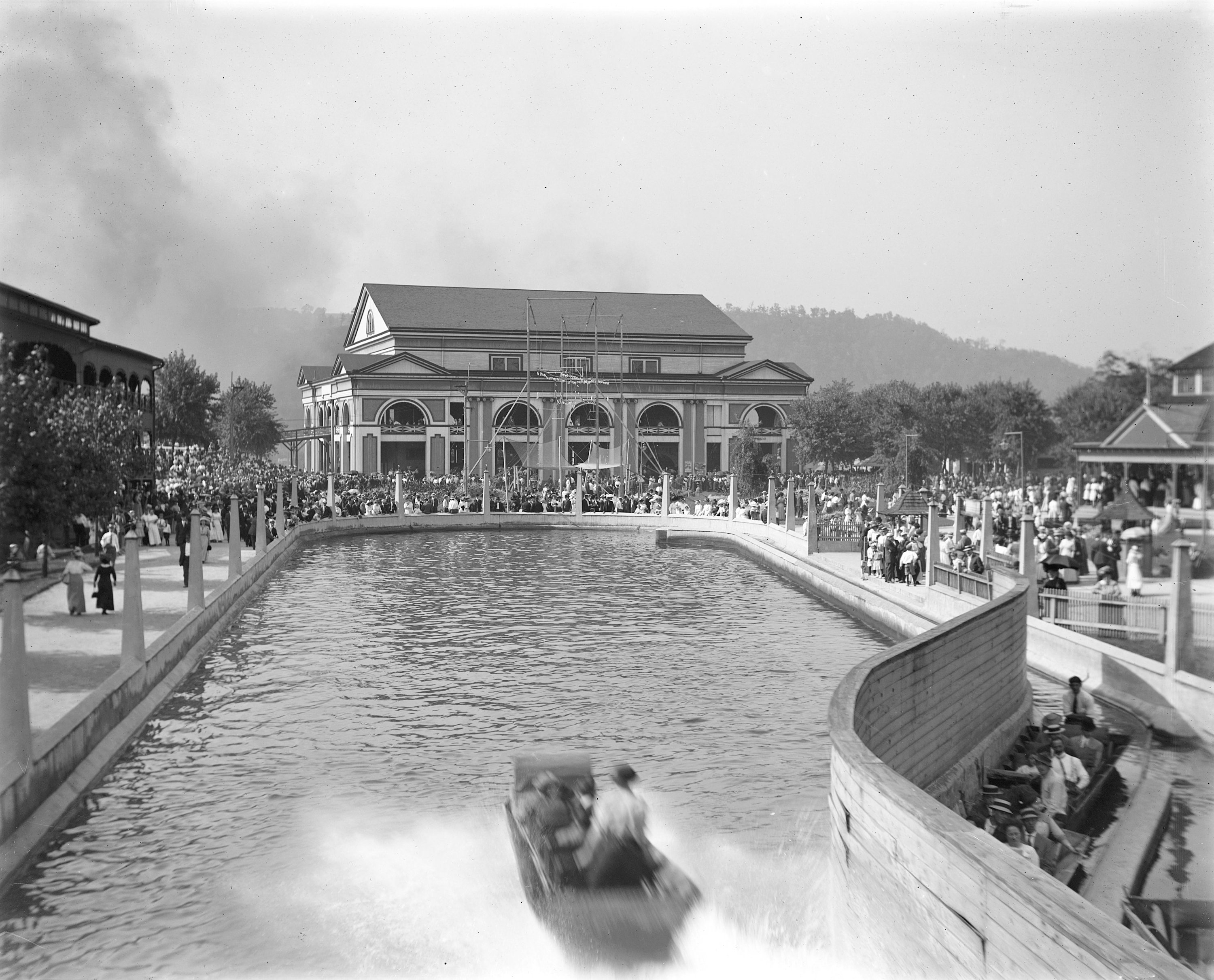 People Watch a Boating Exhibition. Date ca. 1909-1930 Title Boating Display Notes address Unknown Subjects Boats and boating--Pennsylvania Outdoor recreation--Pennsylvania Crowds--Pennsylvania Leisure--Pennsylvania Related names creator John Gates depositor University of Pittsburgh